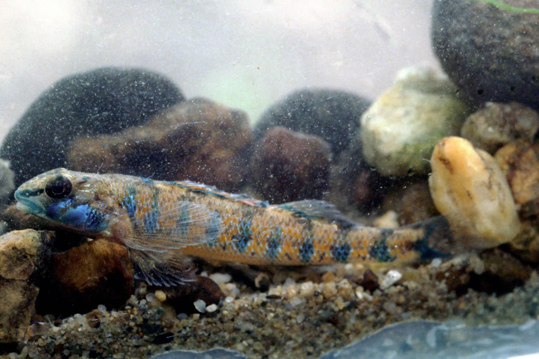 Etheostoma stigmaeum USFWS photo